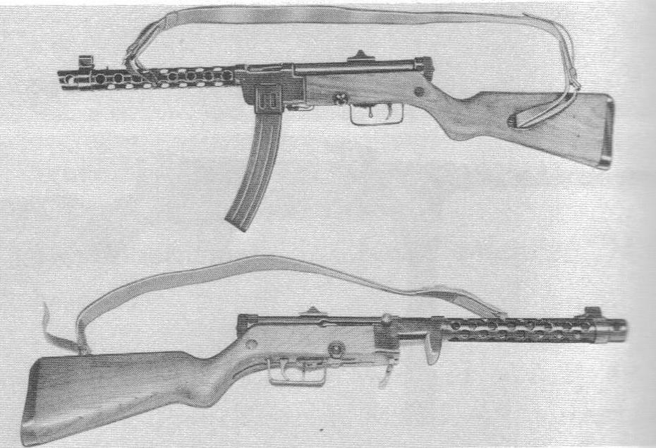 Yugoslavian M-49 Submachine Gun